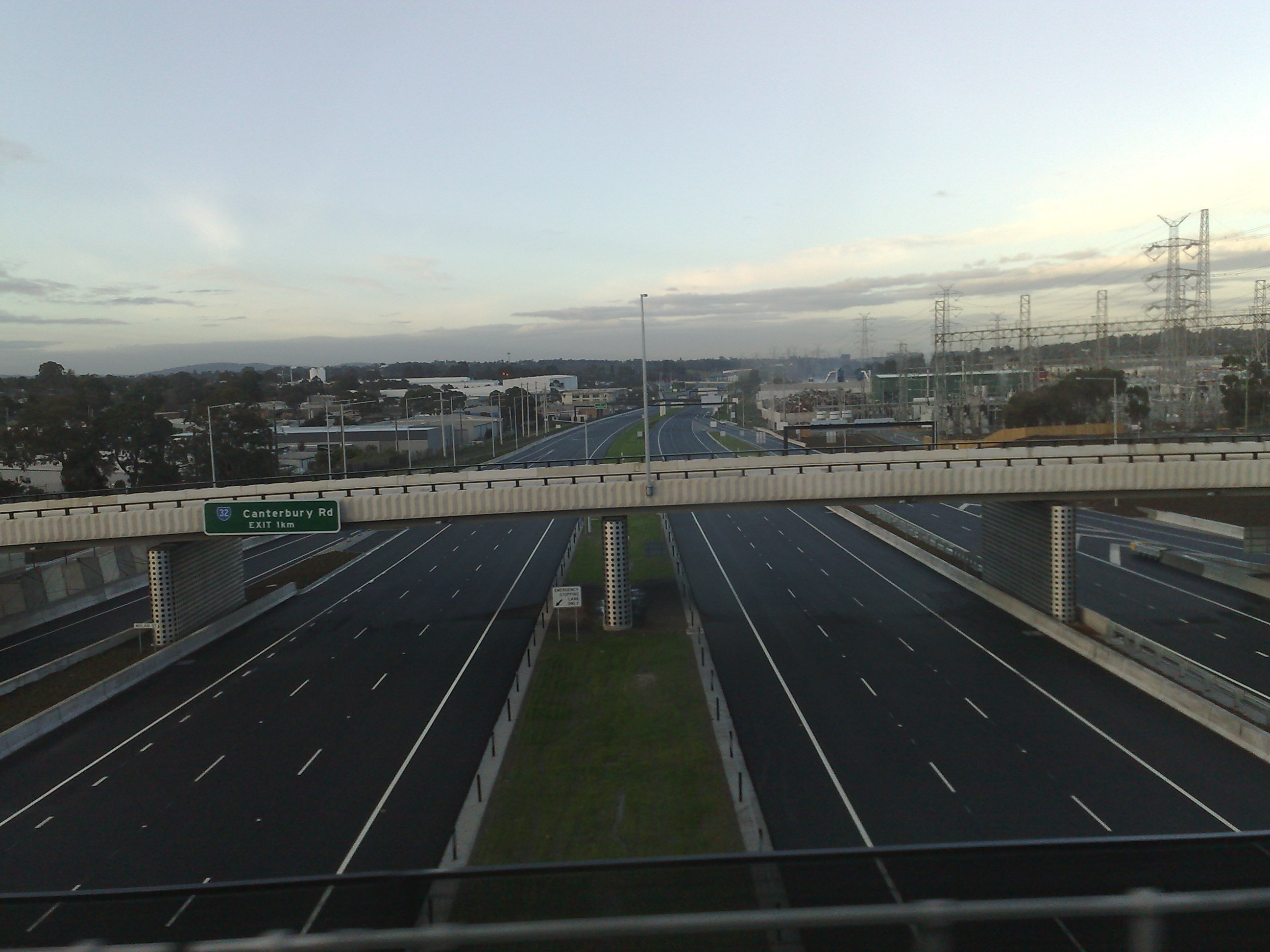 EastLink tollway one week before opening at the Canterbury road exit.